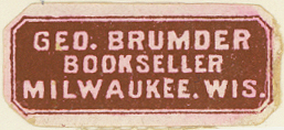 A book trade label from a book sold by Geo. Brumder Booksellers sometime in the late 1800s or early 1900s